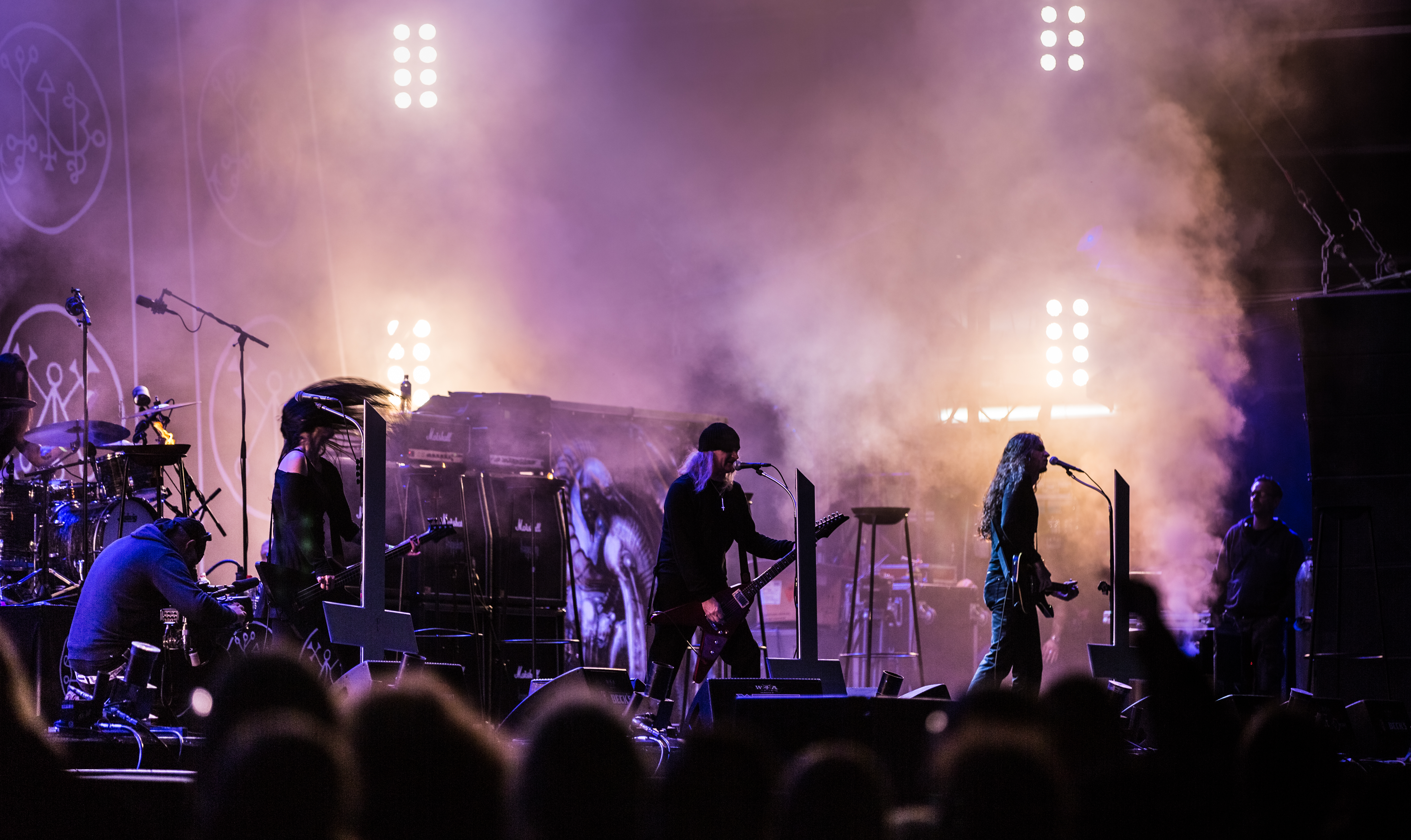 Triptykon - Wacken Open Air 2016